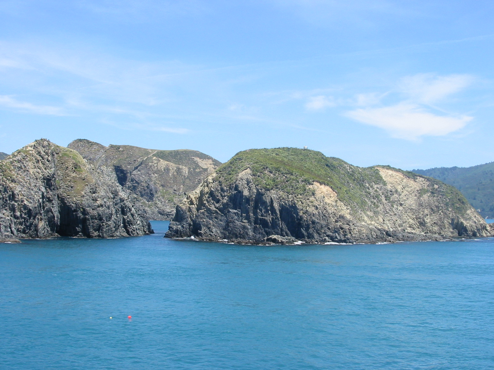 West Head, at the entrance to Tory Channel, New Zealand. This is the easternmost point of New Zealand's South Island.